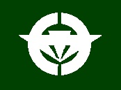 Flag of Kasagi Kyoto chapter